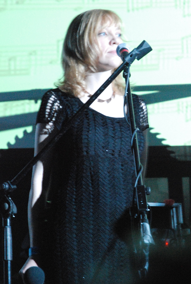 Zoë Skoulding performing with Faust at the Futuresonic Festival in Manchester, United Kingdom, 2007-05-11.